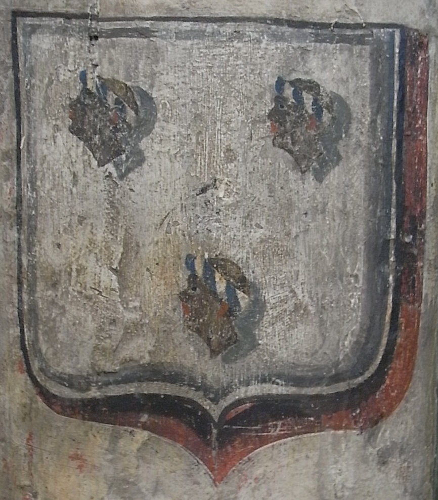 The coat of arms of William II Canynges (c. 1399–1474) depicted on his and his wife Joan Burton's tomb in St Mary Redcliffe, Bristol, England, UK. The shape of the shield, being a late Tudor (16th century or later) escutcheon, suggests this was a later addition or a repainting. However, the arms are accurate as they match those shown in the contemporary portrait of his elder brother Thomas by Roger Leigh. The blazon of the arms is: "Argent, three Moors' heads couped in profile proper wreathed around the temples of the first and azure": from a description of the arms of his descendant Canning in Bernard Burke (1884) The General Armory of England, Scotland, Ireland, and Wales: Comprising a Registry of Armorial Bearings from the Earliest to the Present Time, London: Harrison, p. 166 OCLC: 1647426.